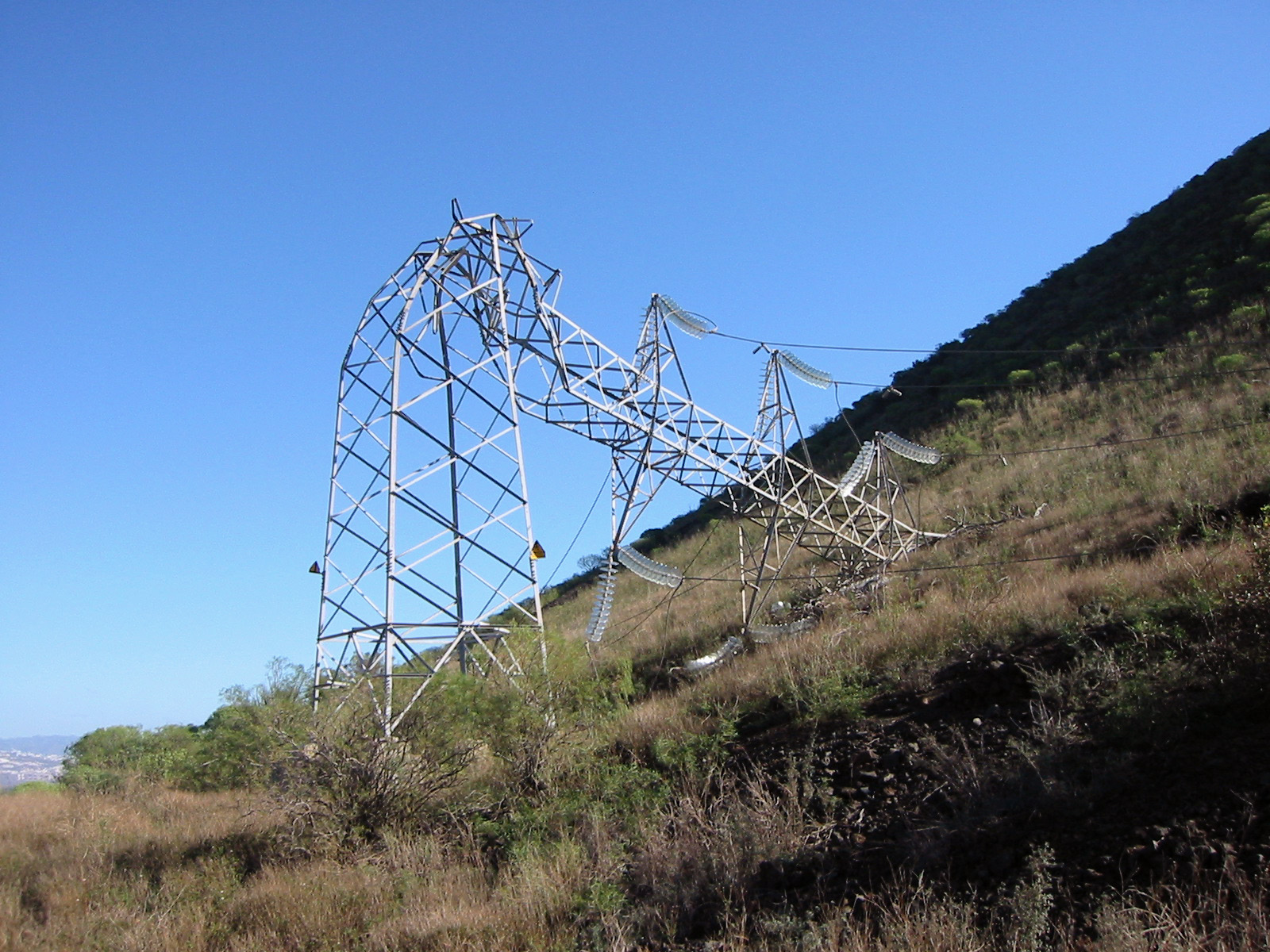 Electric tower fallen. Tropical Storm Delta (2005) Tenerife, Canarias